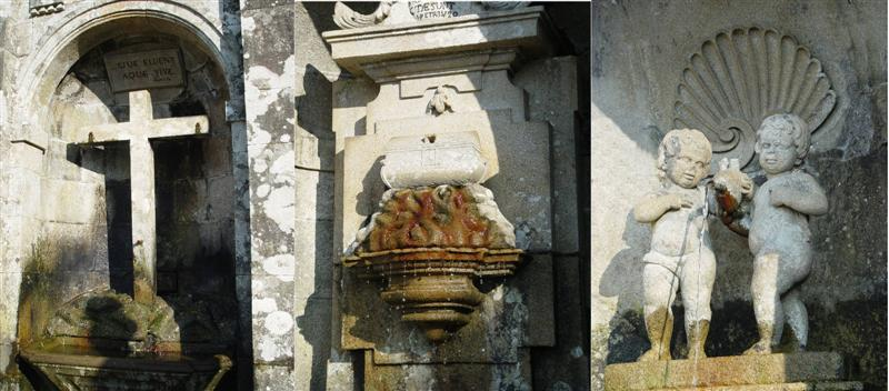 Stairways in Bom Jesus, Braga - 3 Theological virtues